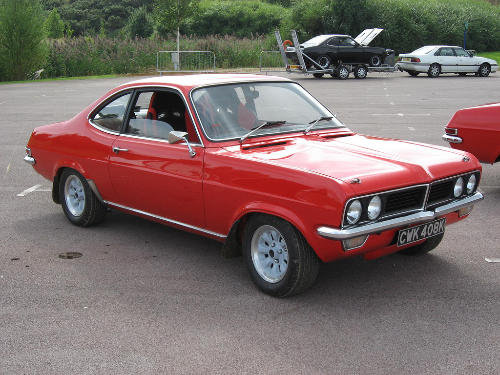 viva owners club at the British motoring heritage museum gaydon .This is a very clean example of a 1256 firenza .